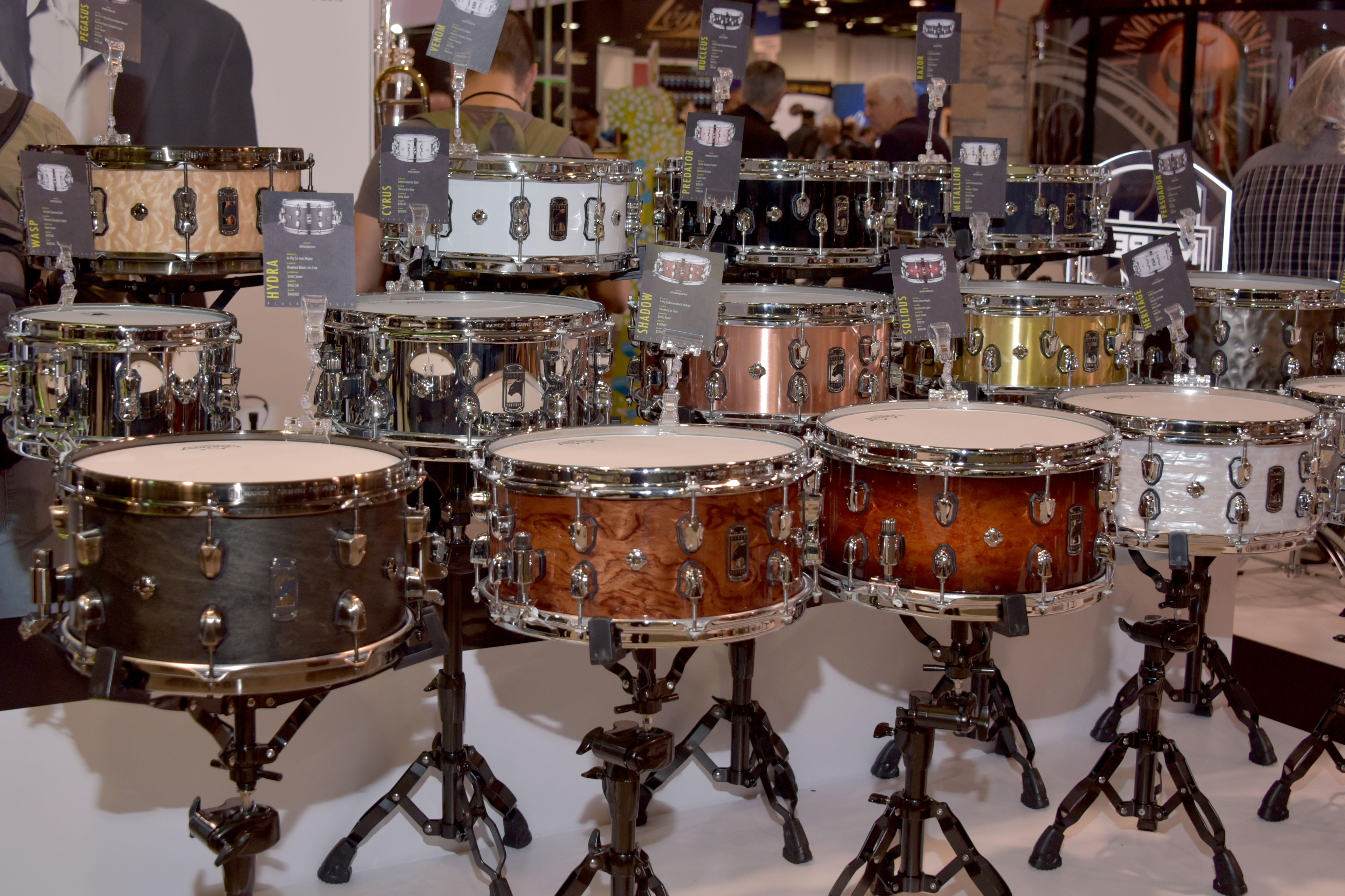 Mapex Drums exhibit at 'The NAMM Show' on January 17, 2020 in Anaheim, California - Photo by Glenn Francis of